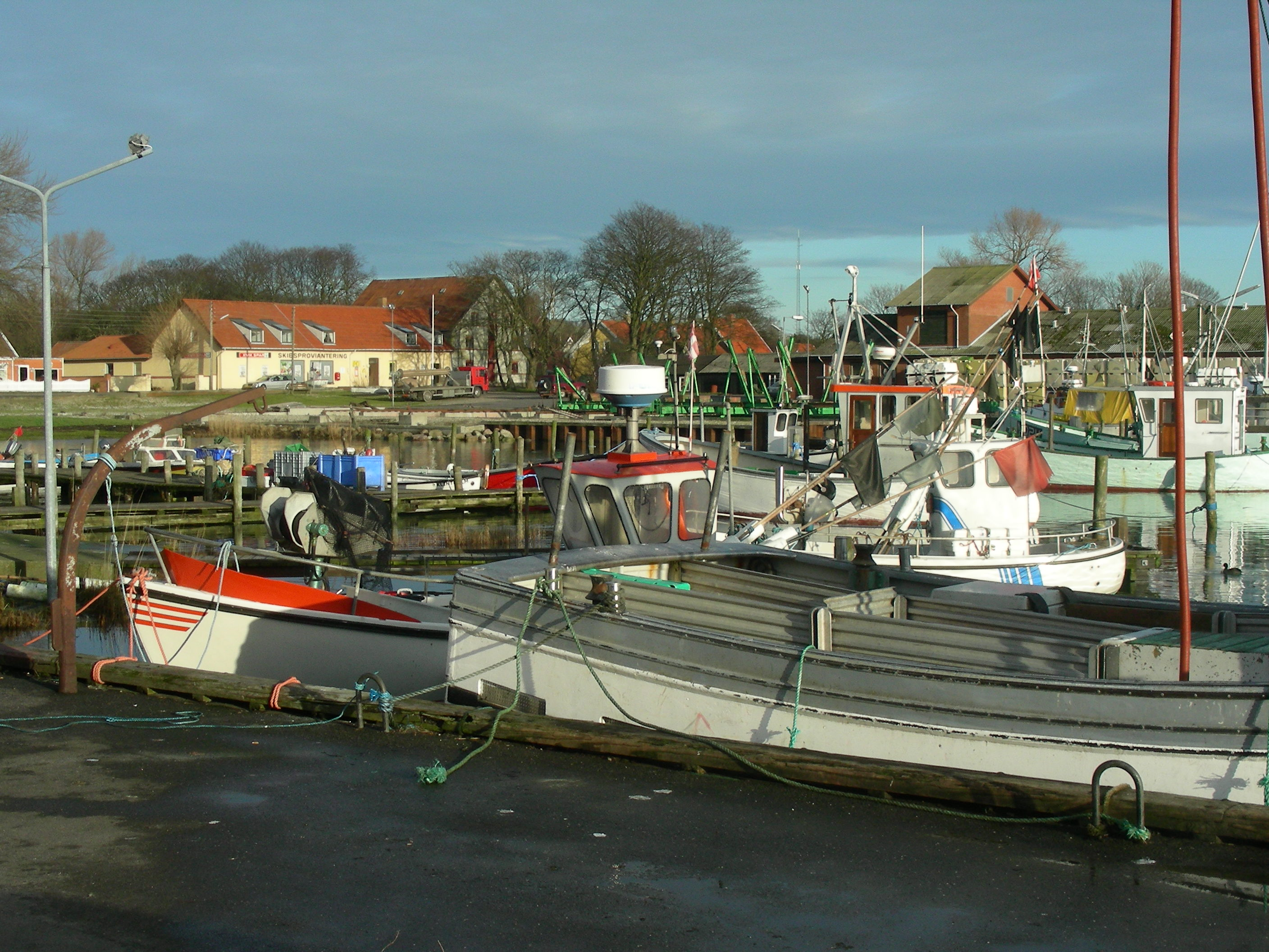 Image of Klintholm Havn, a fishing village on Møn in south-east Denmark Author Ipigott